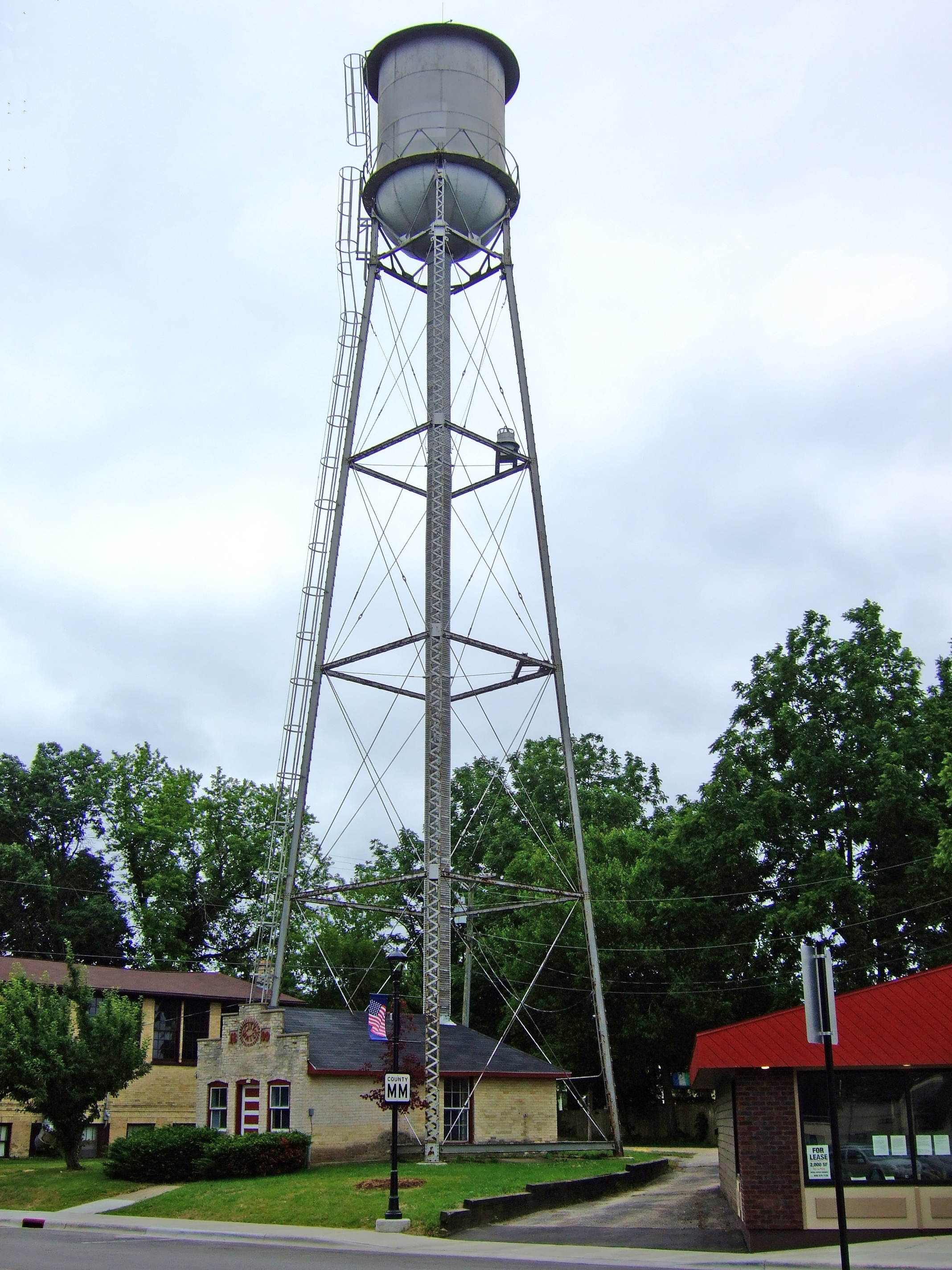 Oregon Water Tower and Pump House located at 134 Janesville Street in Oregon, Wisconsin. Added to the National Register of Historic Places in 2007.